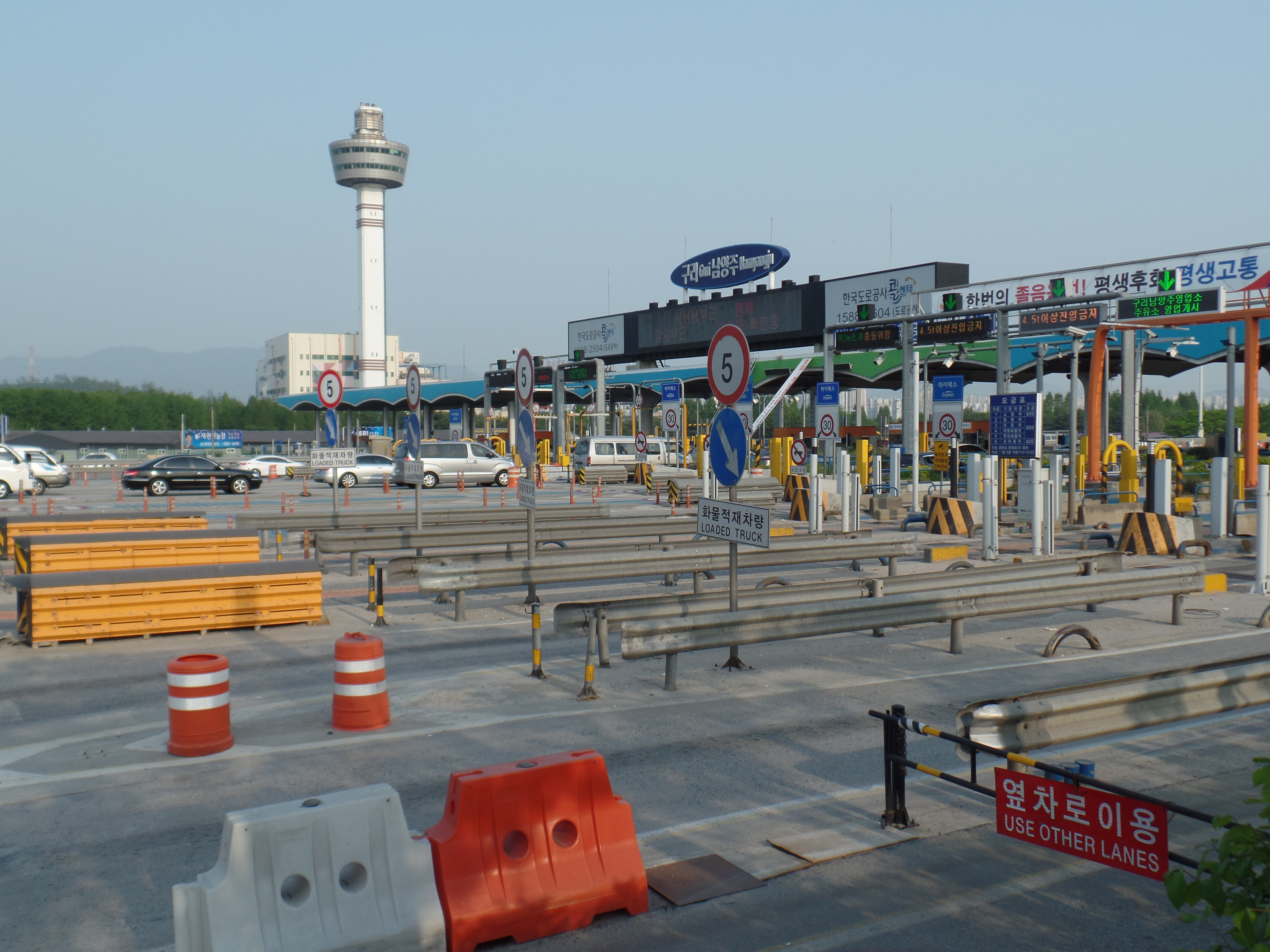 Seoul Ring Expwy GuriNamyangju Tollgate(Hanam Direction)